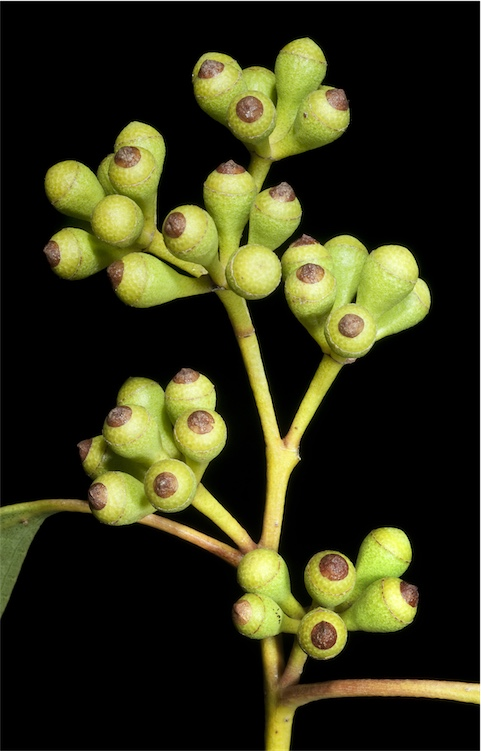 Flower buds of Eucalyptus lucasii, taken between Lake Rebecca and Boomerang Lake, about 110 km in a direct line, NNE of Kalgoorlie, Western Australia